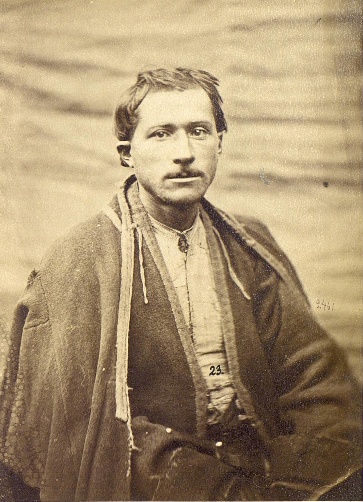 Man from Kuzun village, Baku Governorate.